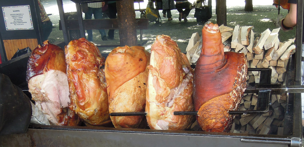 Prague ham in a stand at Old Town Square in Prague